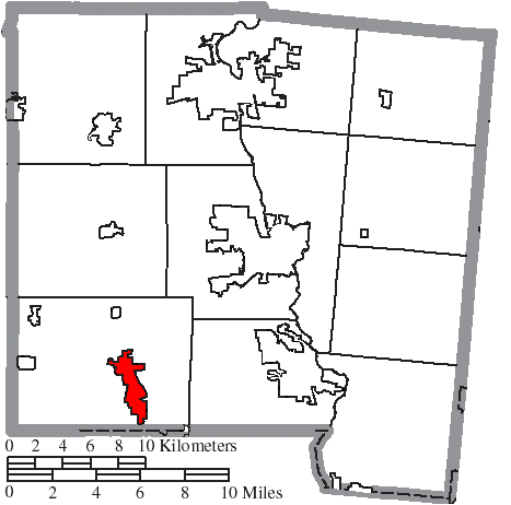 Map of the municipal and township boundaries of Miami County, Ohio, United States, as of the 2000 census, with the location of the village of West Milton highlighted. Township borders are shown only in unincorporated areas in order to differentiate incorporated and unincorporated areas more clearly.